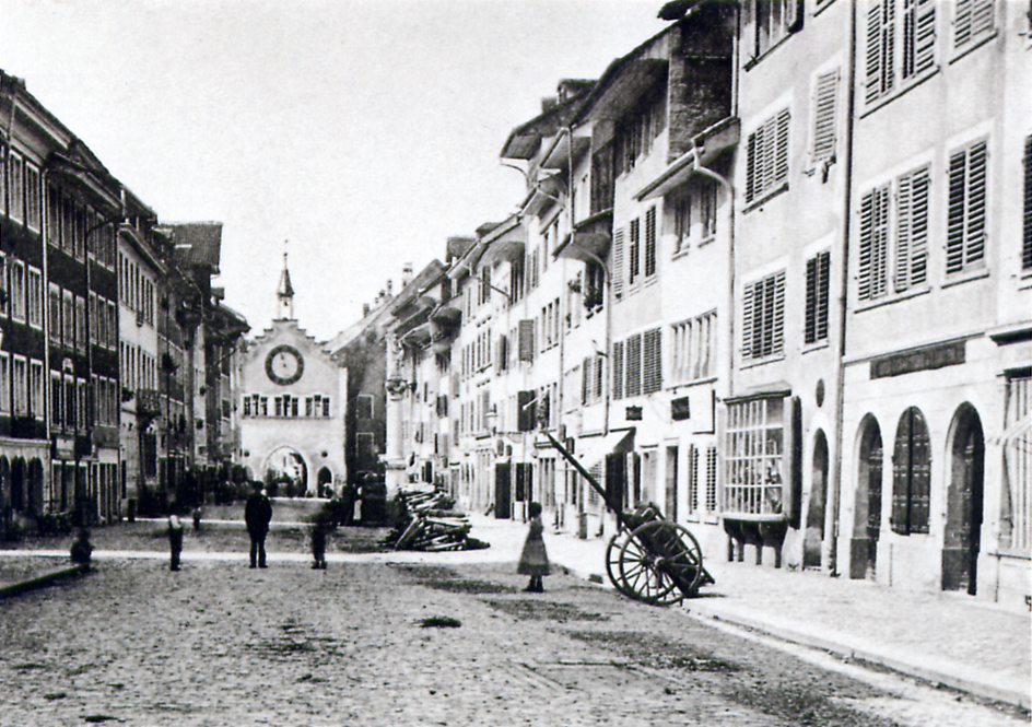 Winterthur: Gate as completion of the market alley on the city ditch. Towers and gates were demolished in the 19th century, picture of 1865